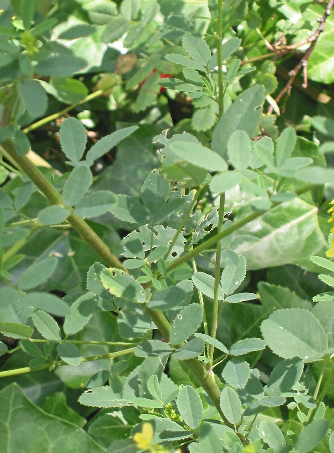 Melilotus officinalis (Citroengele honingklaver blad